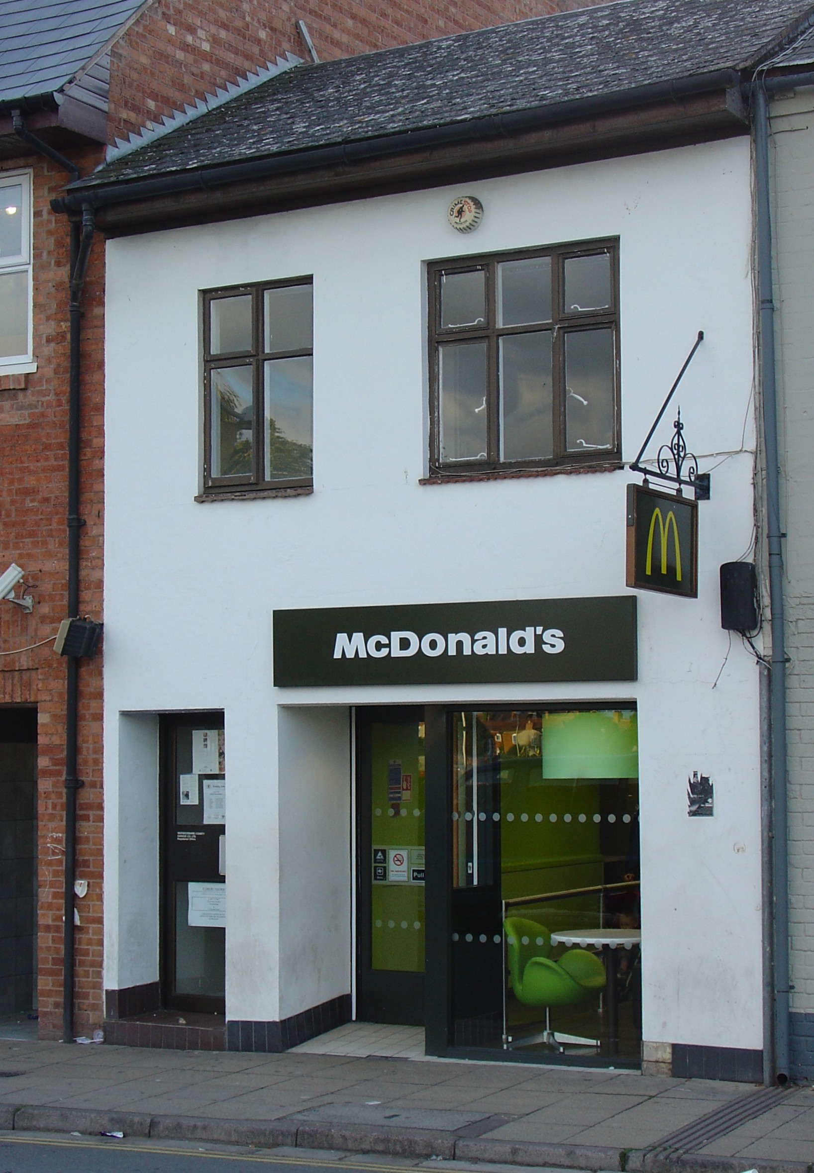 Constrained by local environmental standards, this McDonald's restaurant presents a less garish image than usual.